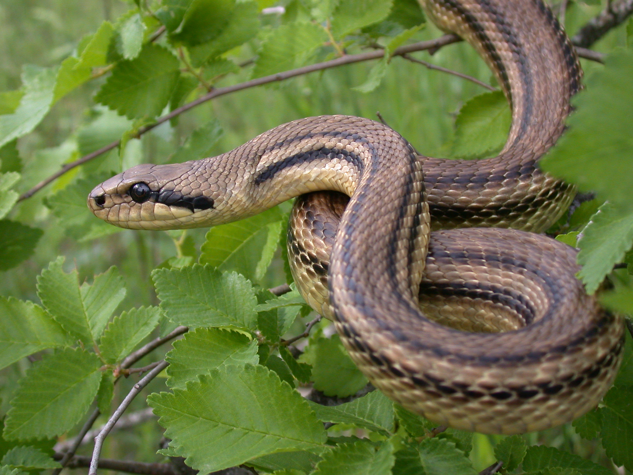 Four-lined Snake (Elaphe quatuorlineata)